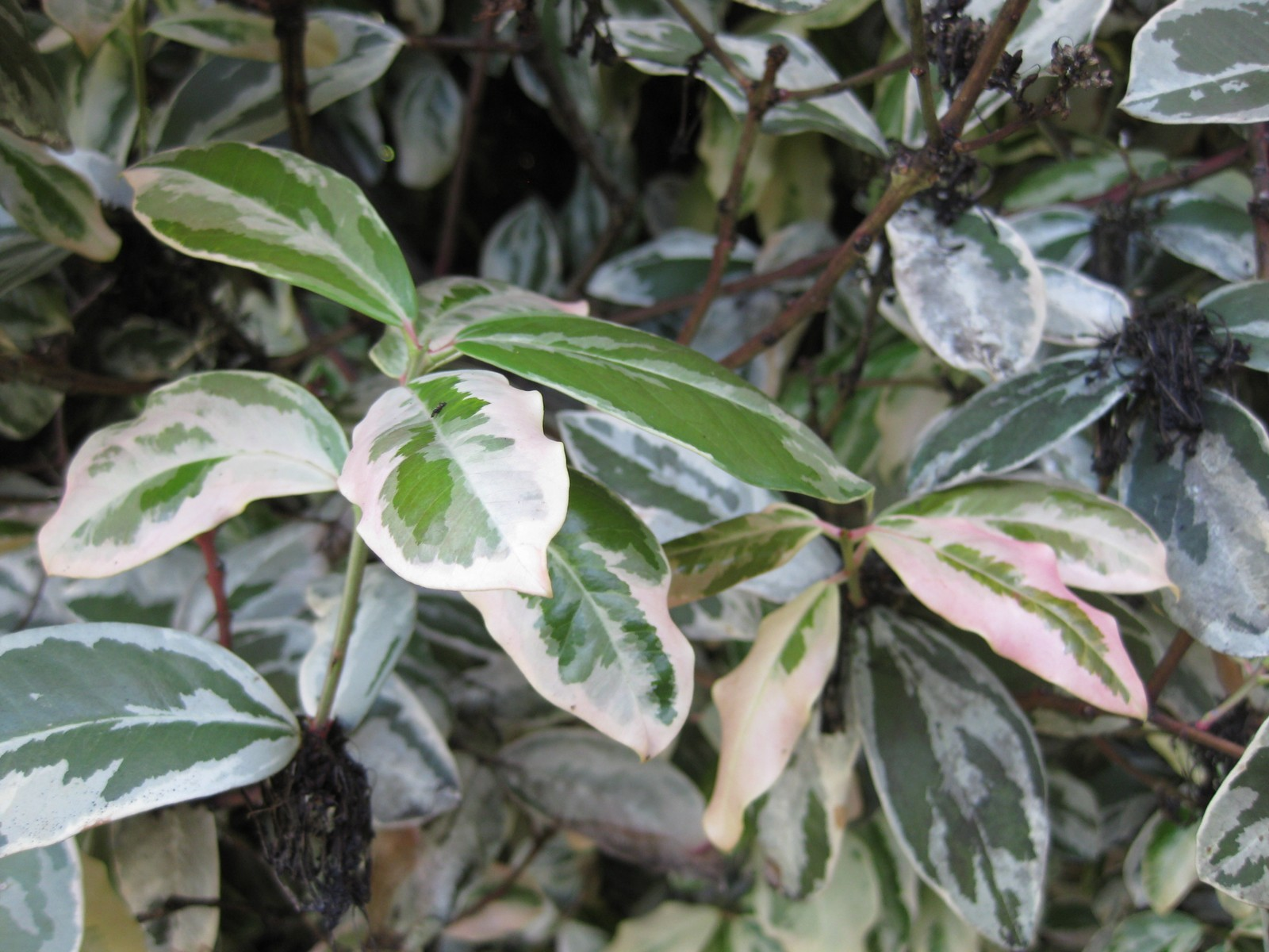 Photographed at the Royal Botanic Gardens Sydney (Australia) in January